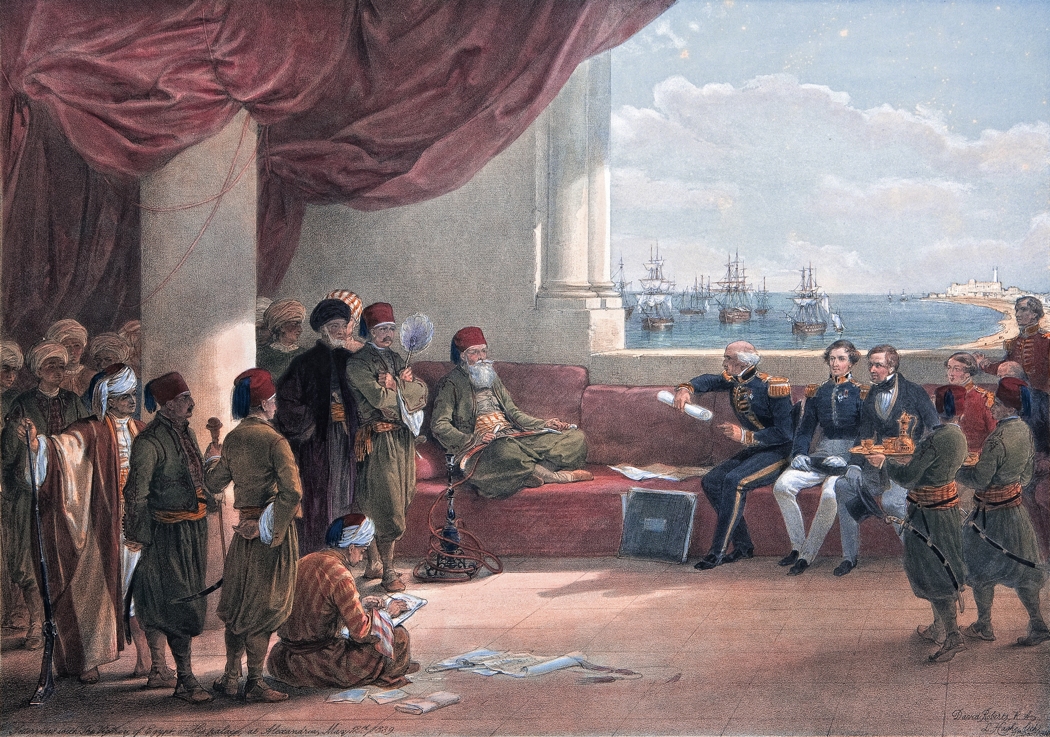 Interview with Mehemet Ali in his Palace at Alexandria (May 12th 1839) lithograph published 1849